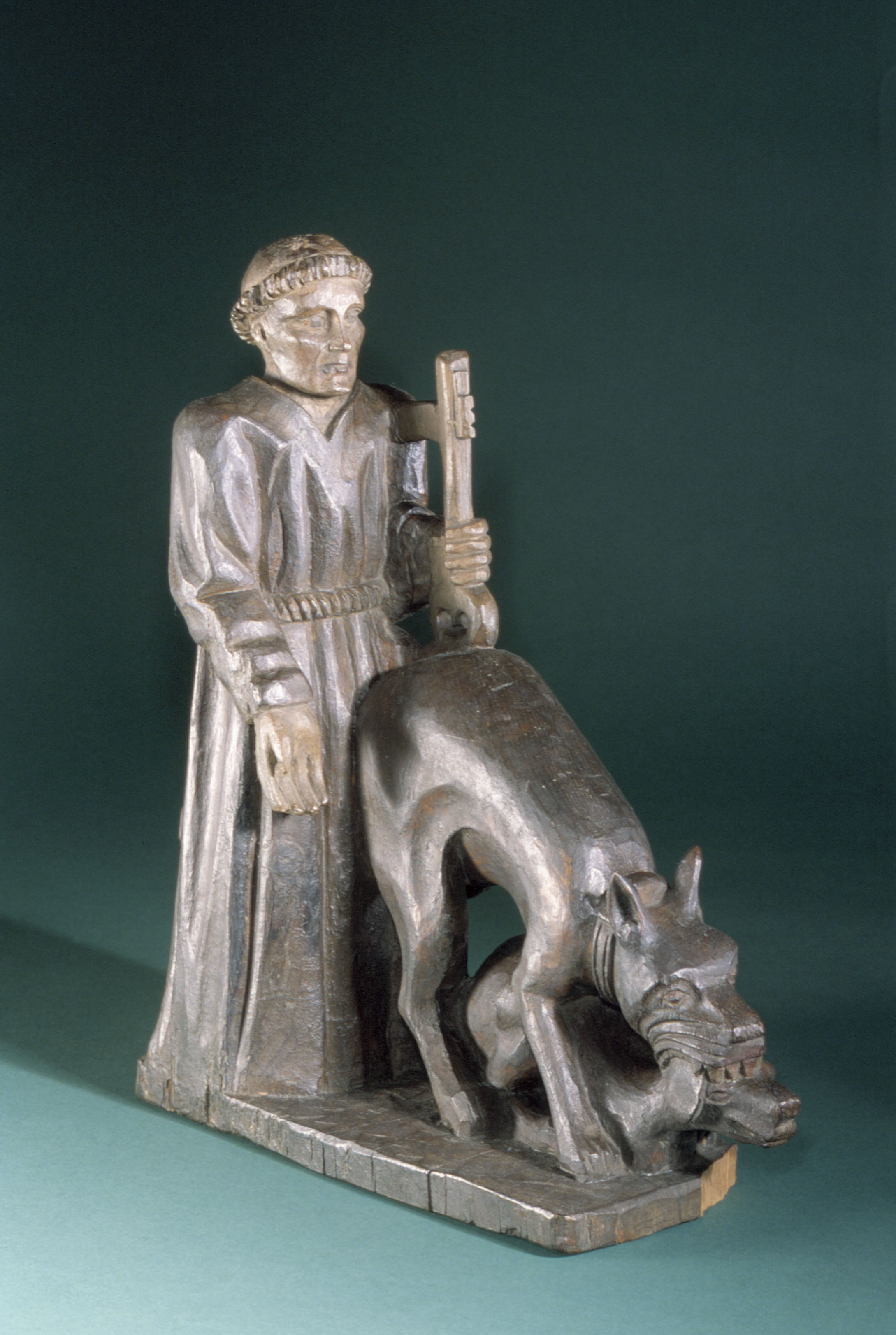 Little is known about the life of St Tugean, sometimes spelt Tugen. The Christian saint was popular in Brittany, France, and was called upon to protect people from rabies. Rabies is a viral disease which affects dogs and wild animals. This is why we see St Tugean watching over one large fierce rabid dog biting another defenceless dog. The statue is carved from wood and painted. Rabies can be passed to humans through bites from infected animals and is fatal unless anti-rabies serum is administered as soon as possible after the bite. Up until the late 1800s, there was no cure for the disease. maker: Unknown maker Place made: France Wellcome Images Keywords: Rabies; Saints; statue; saint